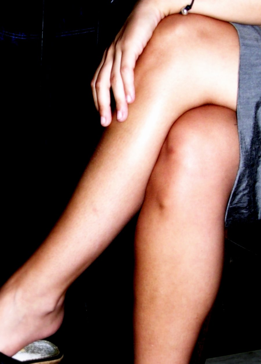 Legs of a woman